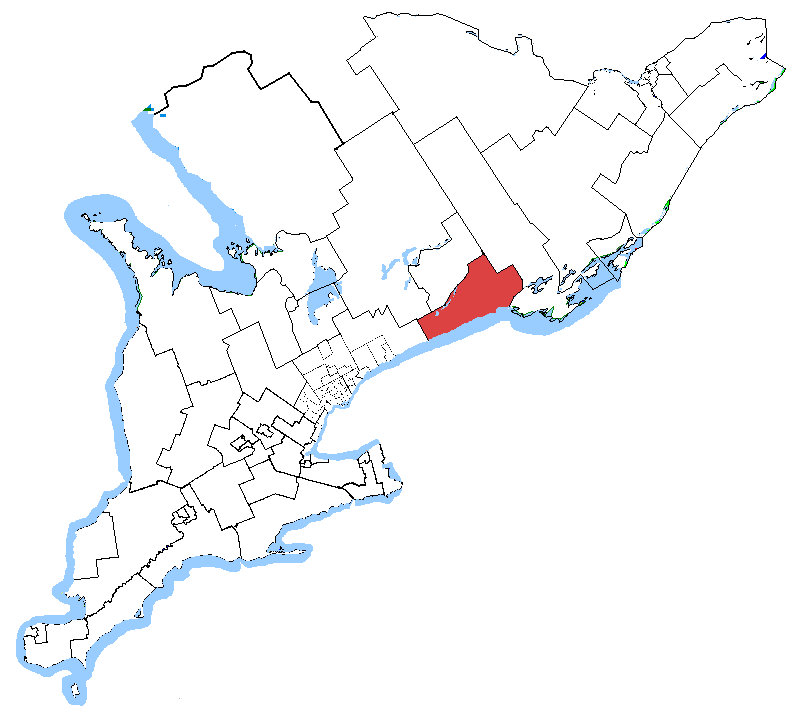 Map of the Northumberland—Quinte West electoral district. Based on Earl Andrew's maps, created by SimonP.